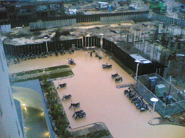 Photos from Embassy Golf Links Business Park which is off intermediate(/inner) ring road in Bangalore.